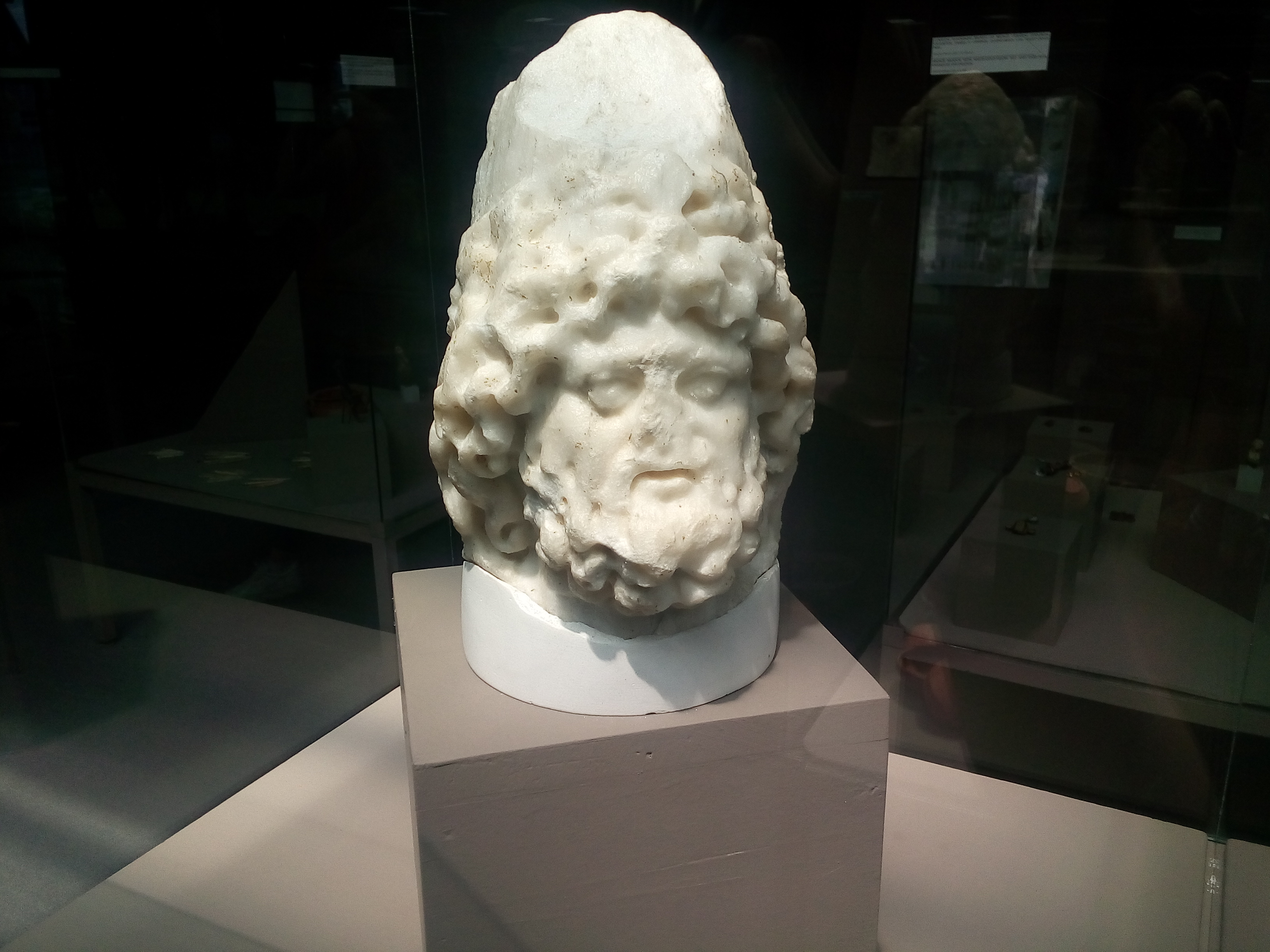 Crowned god Jupiter Dolichenus, god with conic or pyramidal cap, encircling by a wreath of laurel, the symbol of triumph and immortaltality.